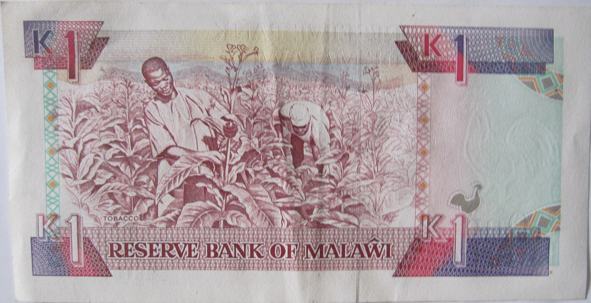 Malawi -1kwacha Banknote of approx. 1992